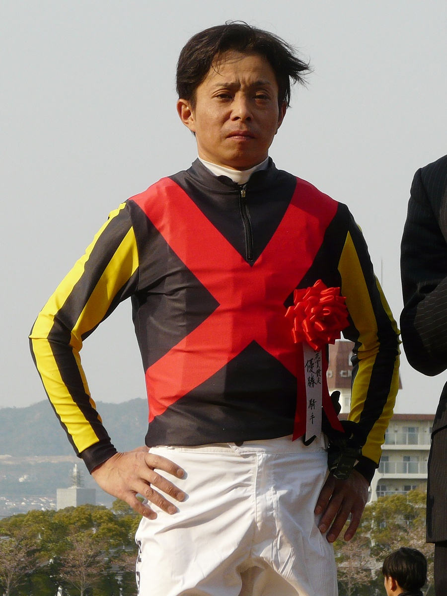 Yasunari-Iwata20120408